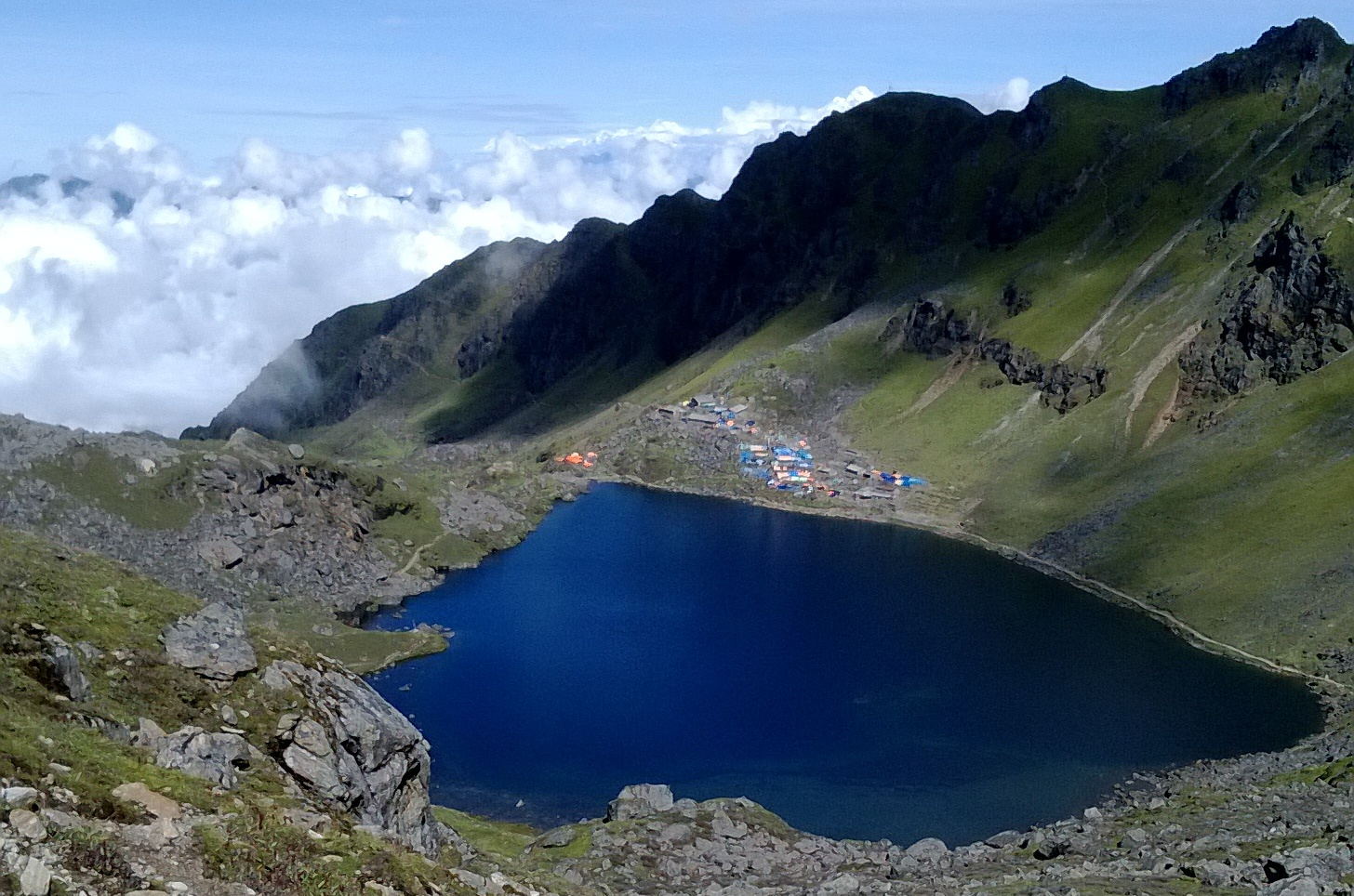 full view of Gosaikunda